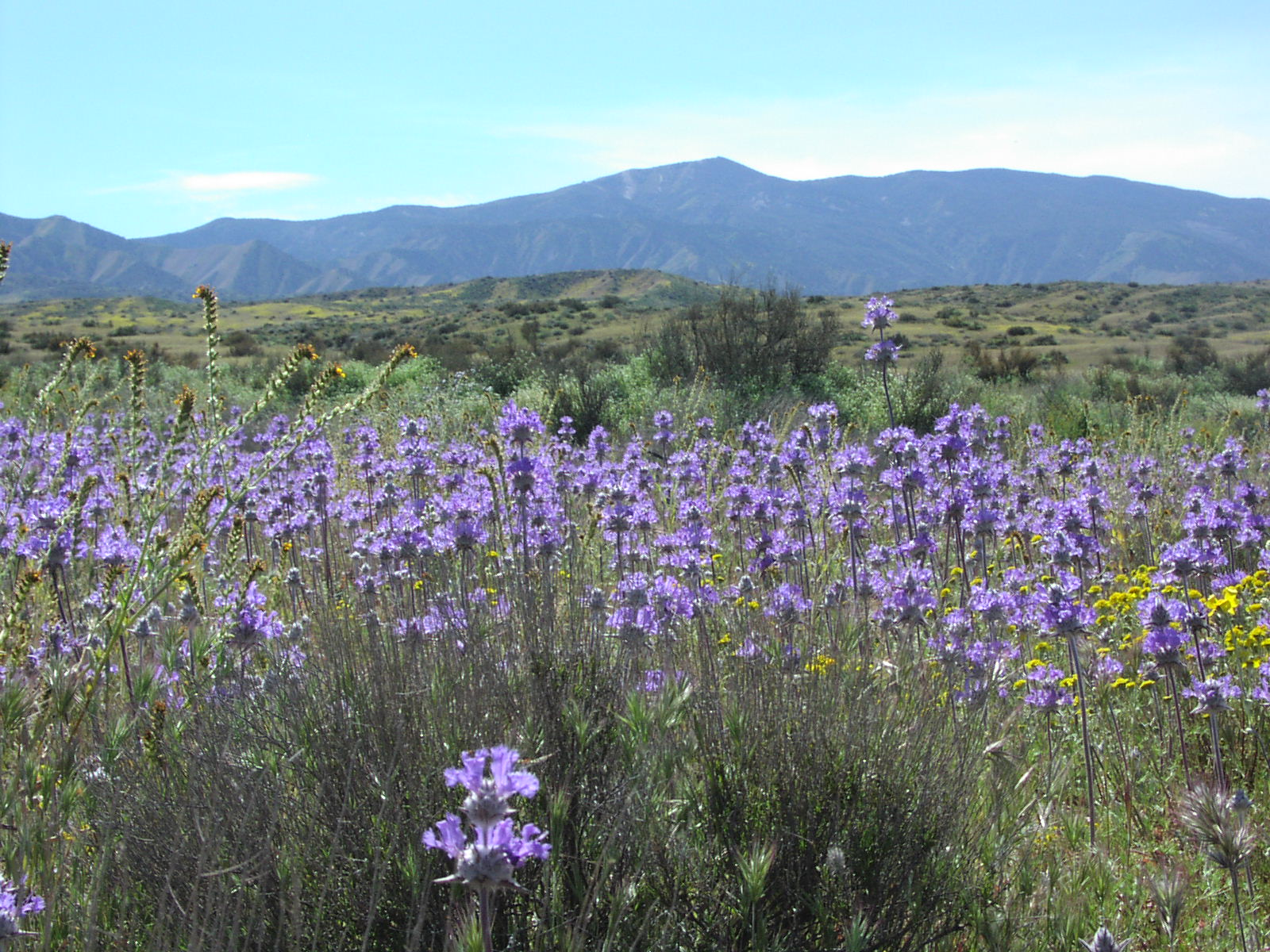 Caliente Peak (1556 m—5106 ft) and the Caliente Range — seen from the Carrizo Plain with native Spring wildflowers, in Carrizo Plain National Monument. Caliente Peak is the highest summit in the Caliente Mountains, which are in the southern Inner California Coast Ranges System. Located in eastern San Luis Obispo County, central California. The view is to the southwest, from the foothills at the southwest edge of the Carrizo Plain.